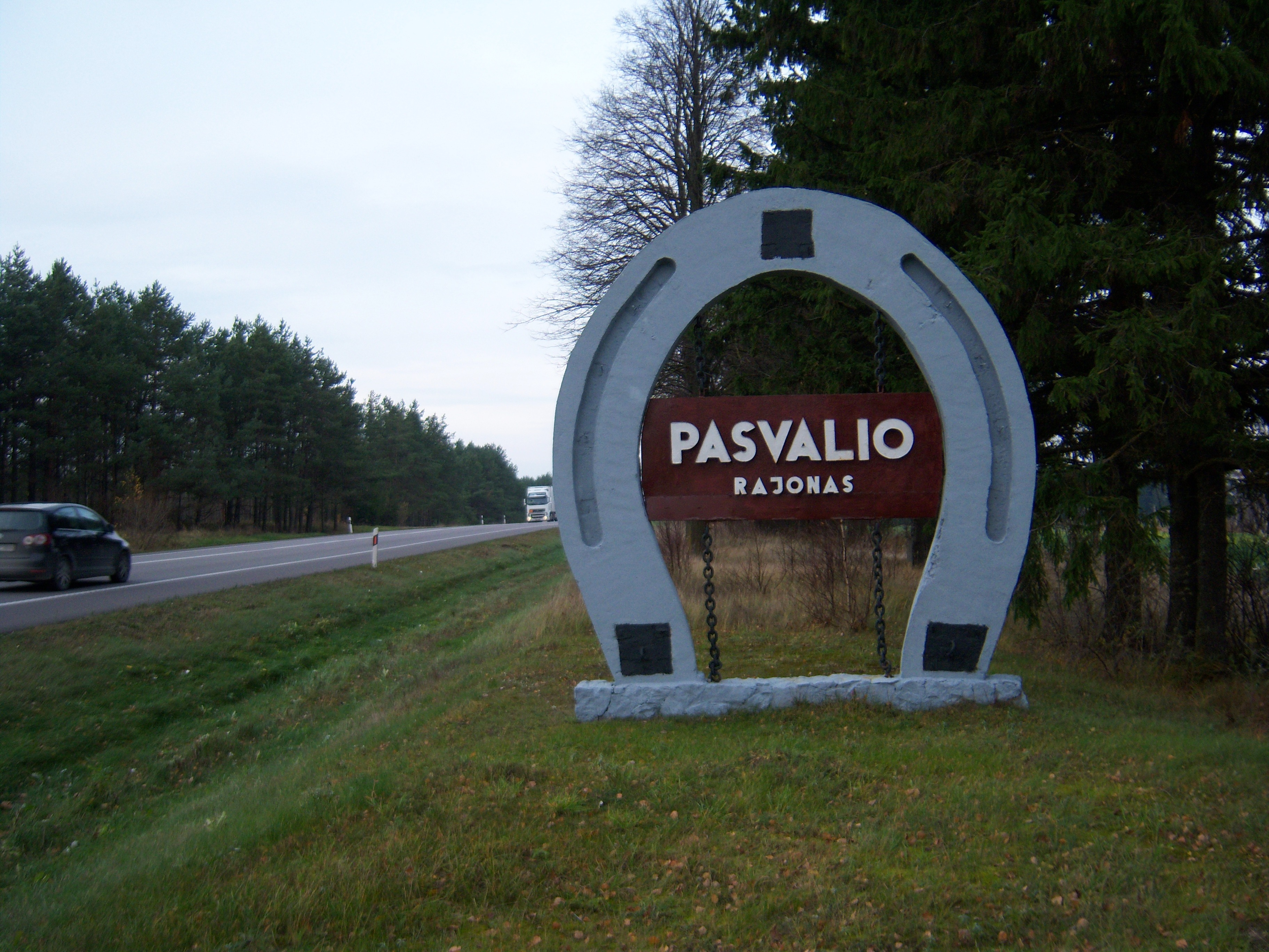 Pasvalys District, Lithuania